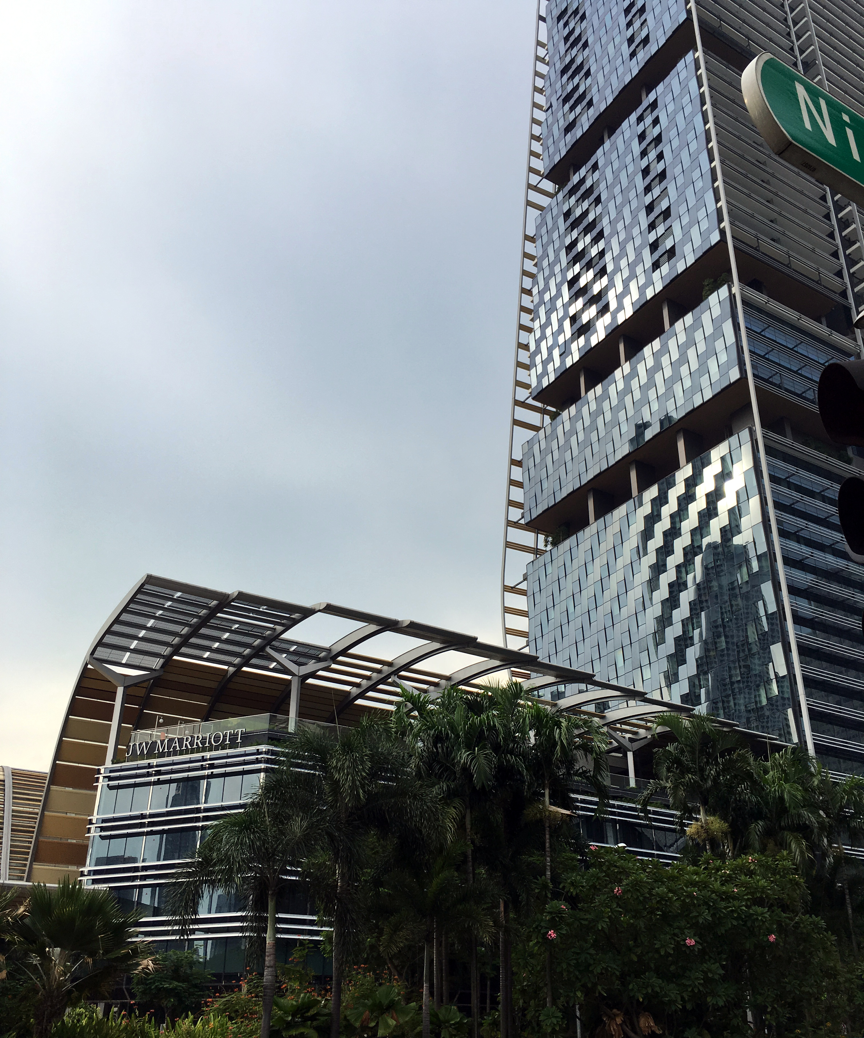 Partial view of the JW Marriott Singapore South Beach as seen along Nicoll Highway